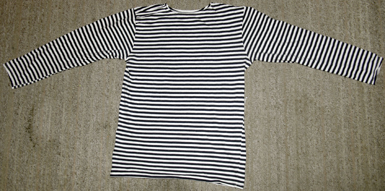 Telnyashka